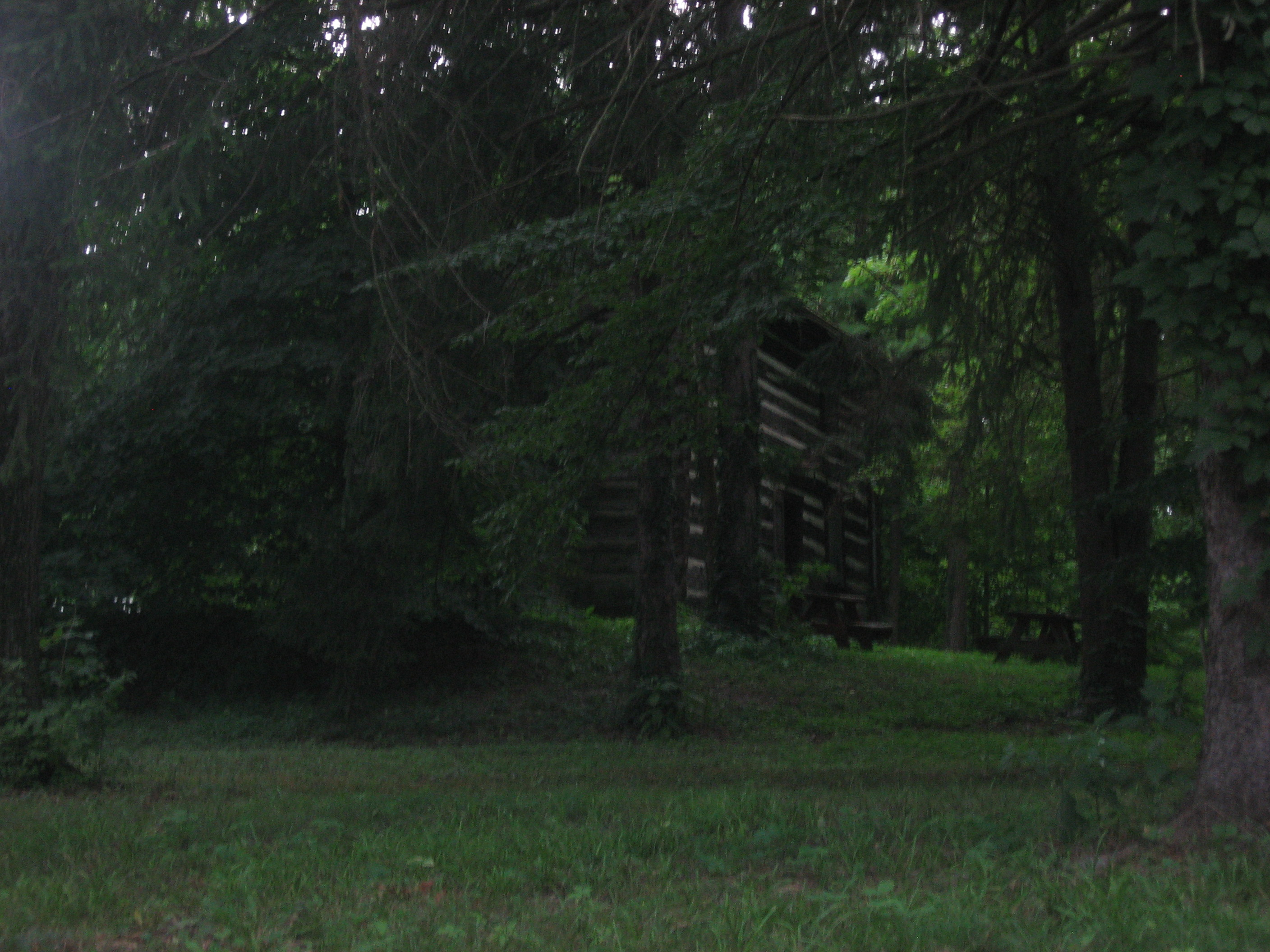 View through the trees of the Thomas Select School, located at 3637 Millville-Shandon Road in Shandon in Morgan Township, Butler County, Ohio, United States. Built in 1810, it is listed on the National Register of Historic Places.